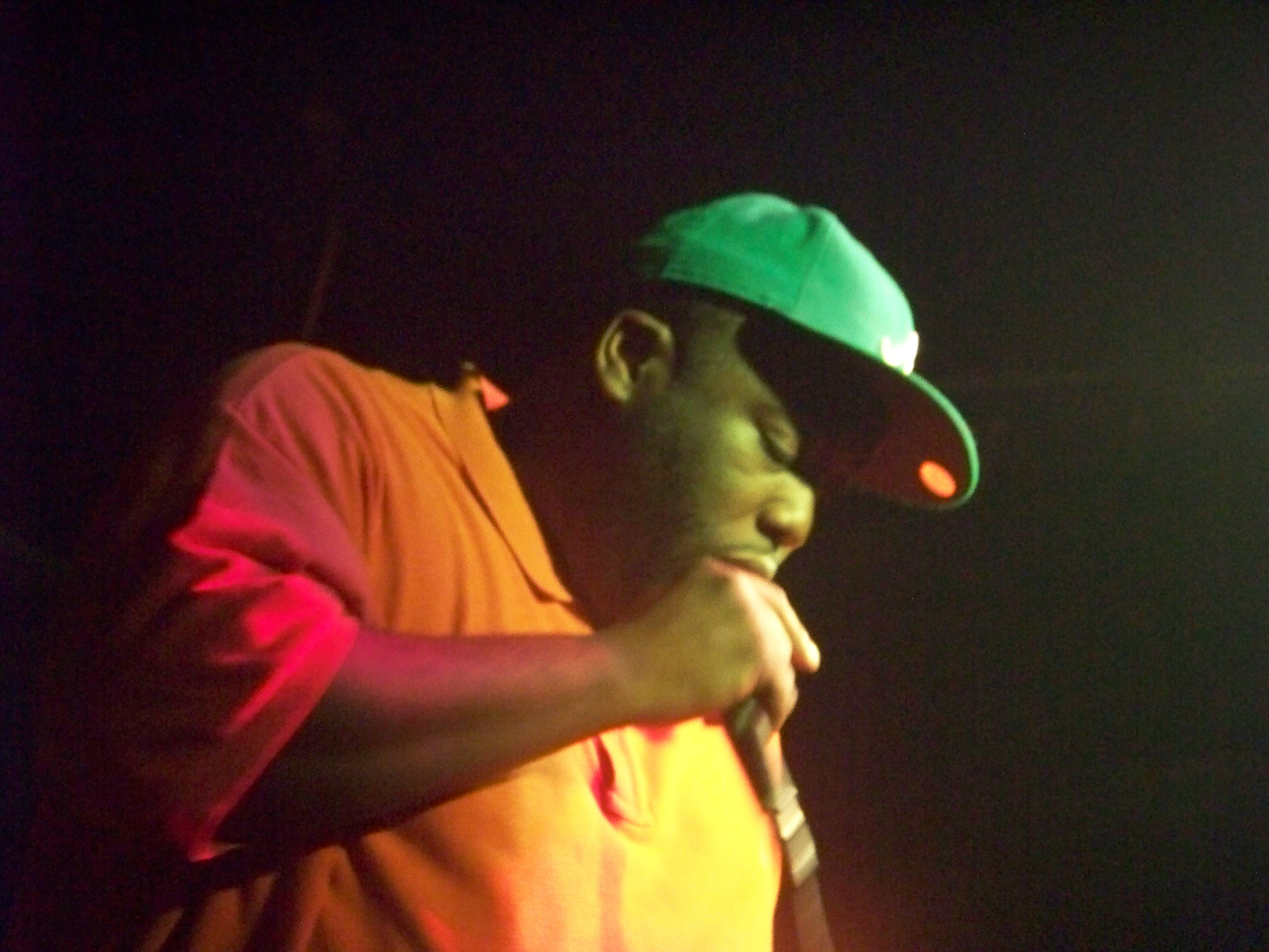 Killer Mike, American rapper.